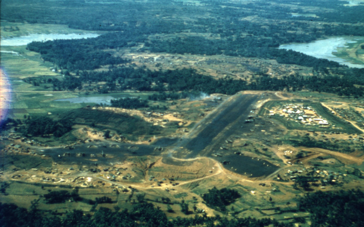 LZ Two Bits located along the Lai Giang River in Binh Dinh Province. The forward CP of the 1st Cavalry Division has been located here for Operation Pershing.